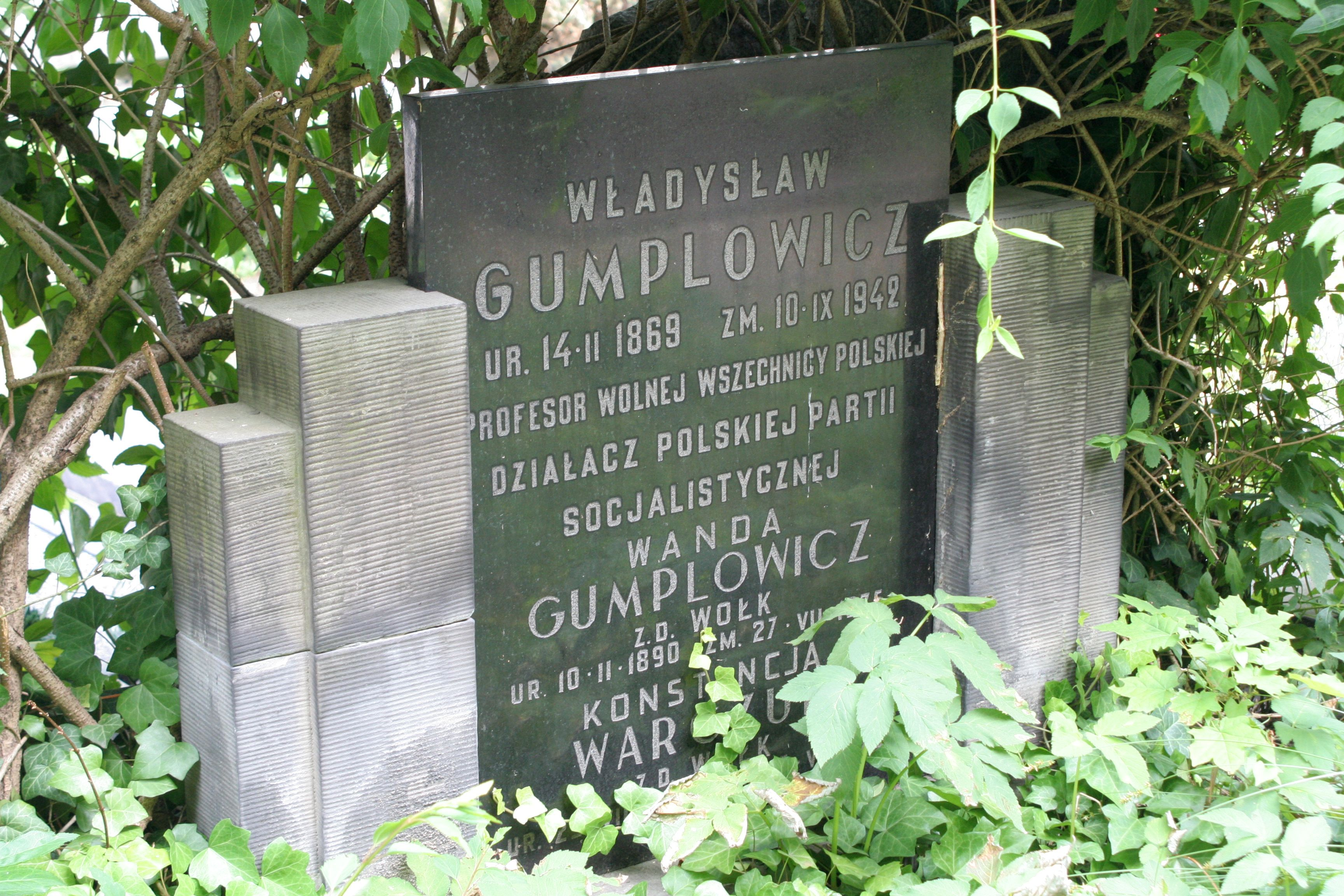 Władysław Gumplowicz's grave at Protestant Reformed Cemetery, Warsaw.